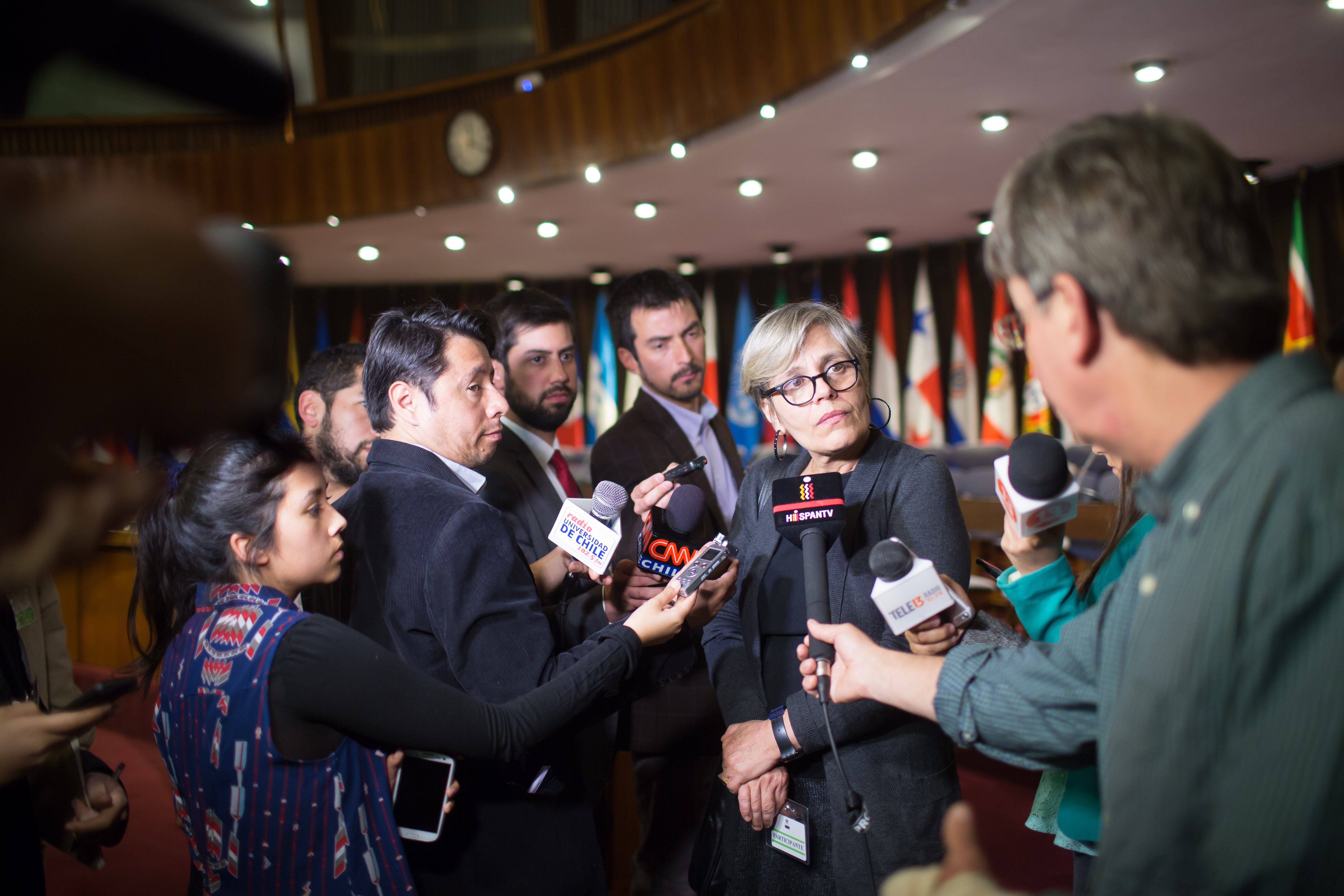 INDH head Lorena Fries interviewed following the press conference on Sept. 30